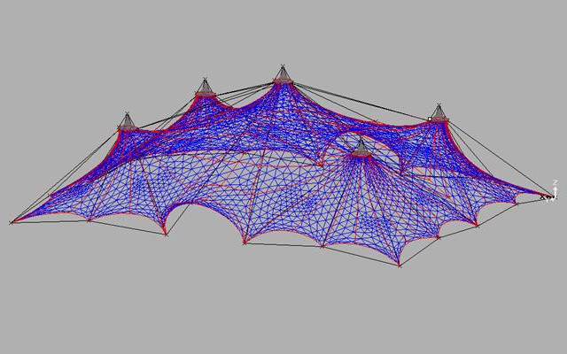 Dance net